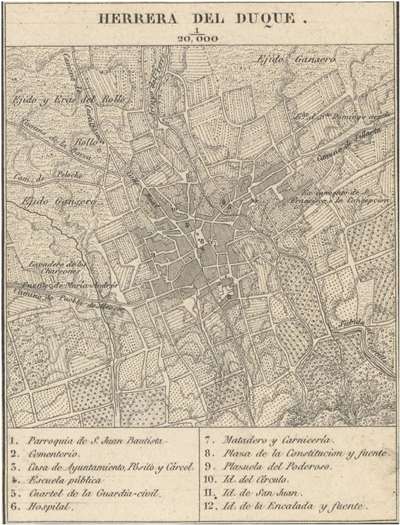 Maps of Herrera del Duque